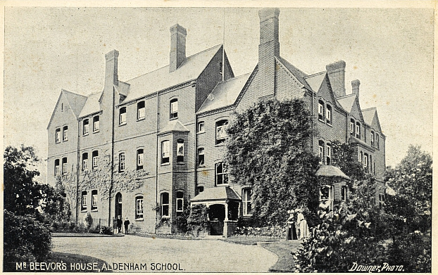 Aldenham School Elstree, Mr Beevor's house c.1910. Opened in 1895, Beevor’s is one of the six senior Houses.